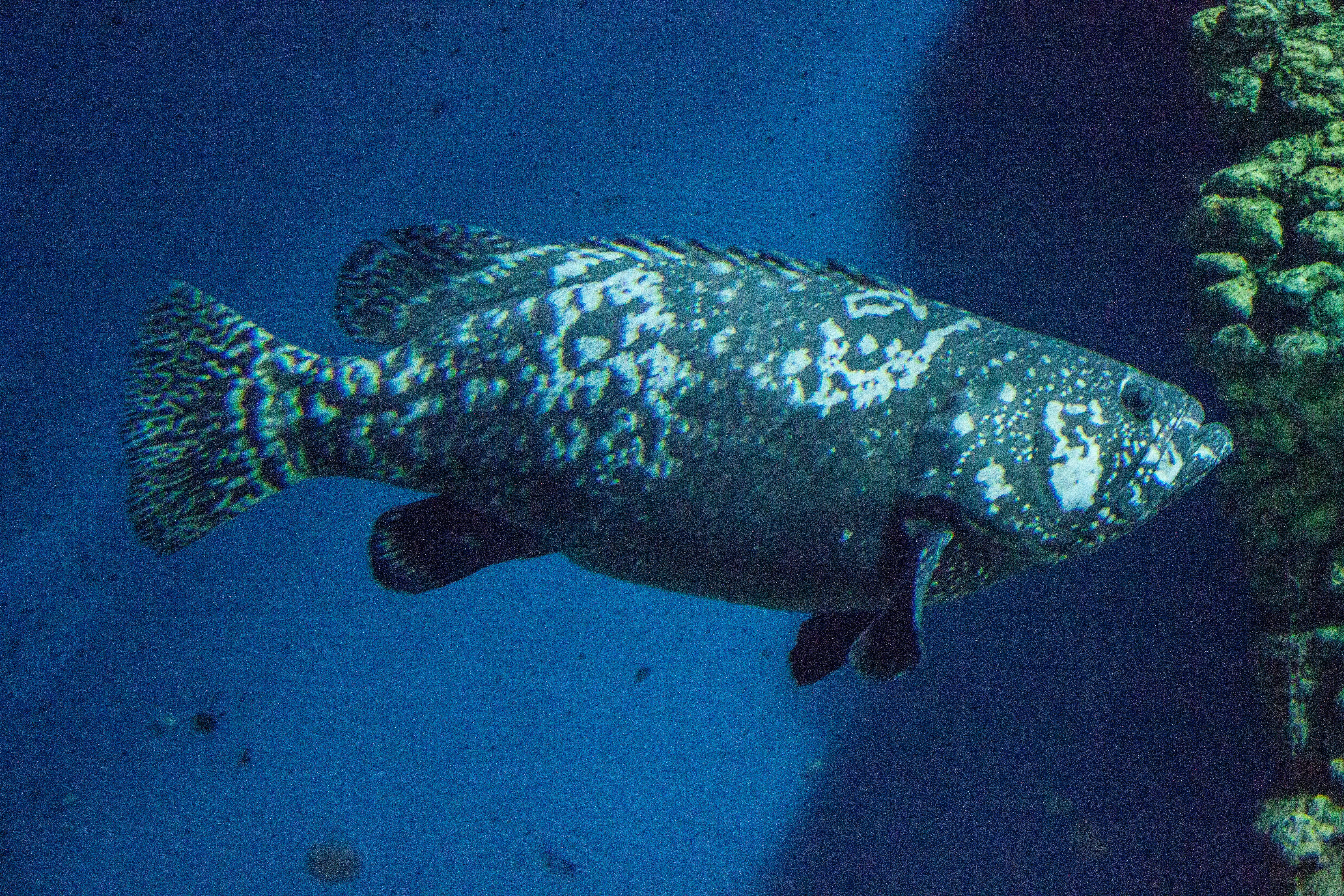 Oceanarium in Nyíregyháza Zoo